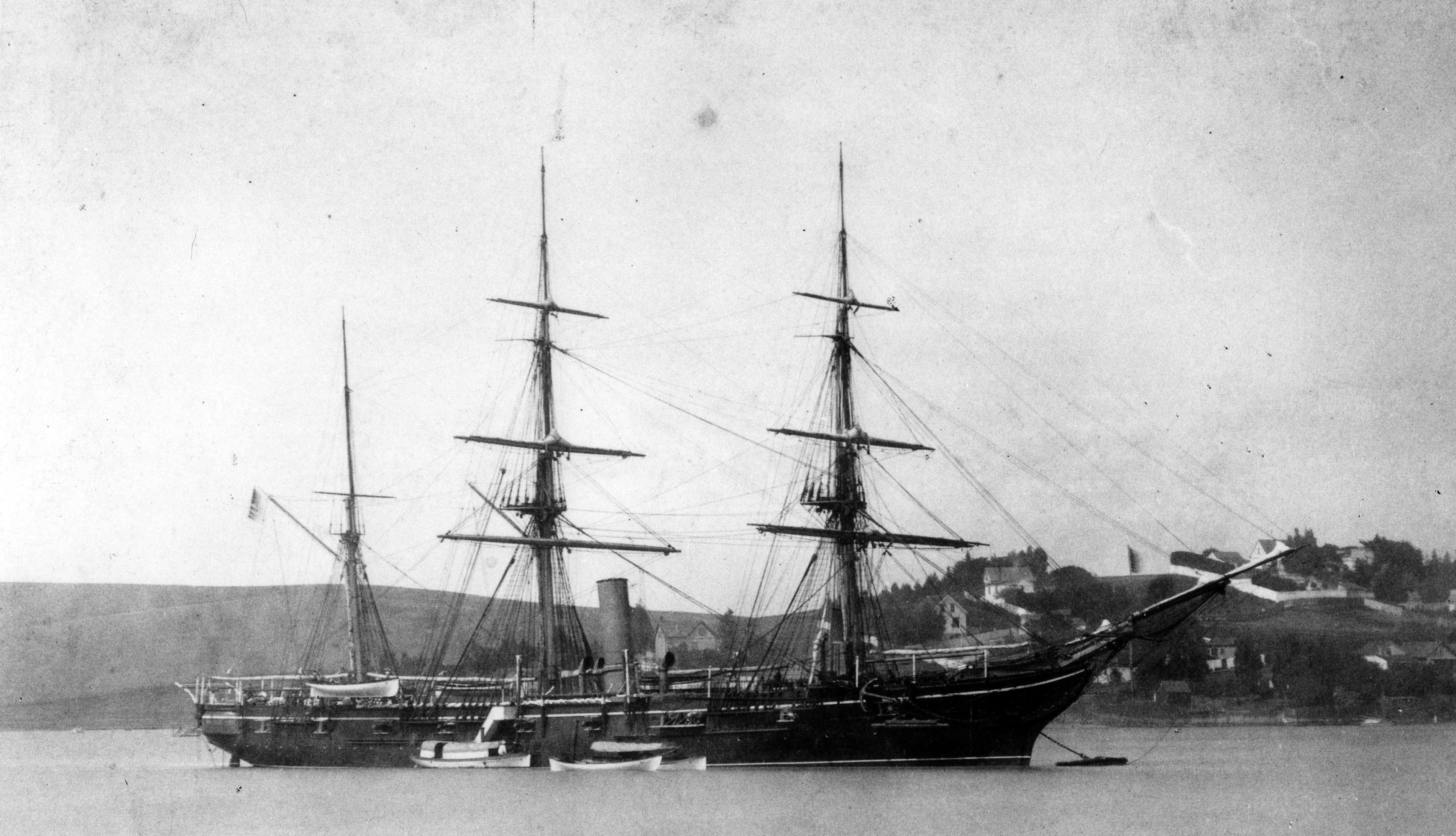 United States Navy screw sloop-of-war USS Mohican off Mare Island Naval Base in November of 1894.